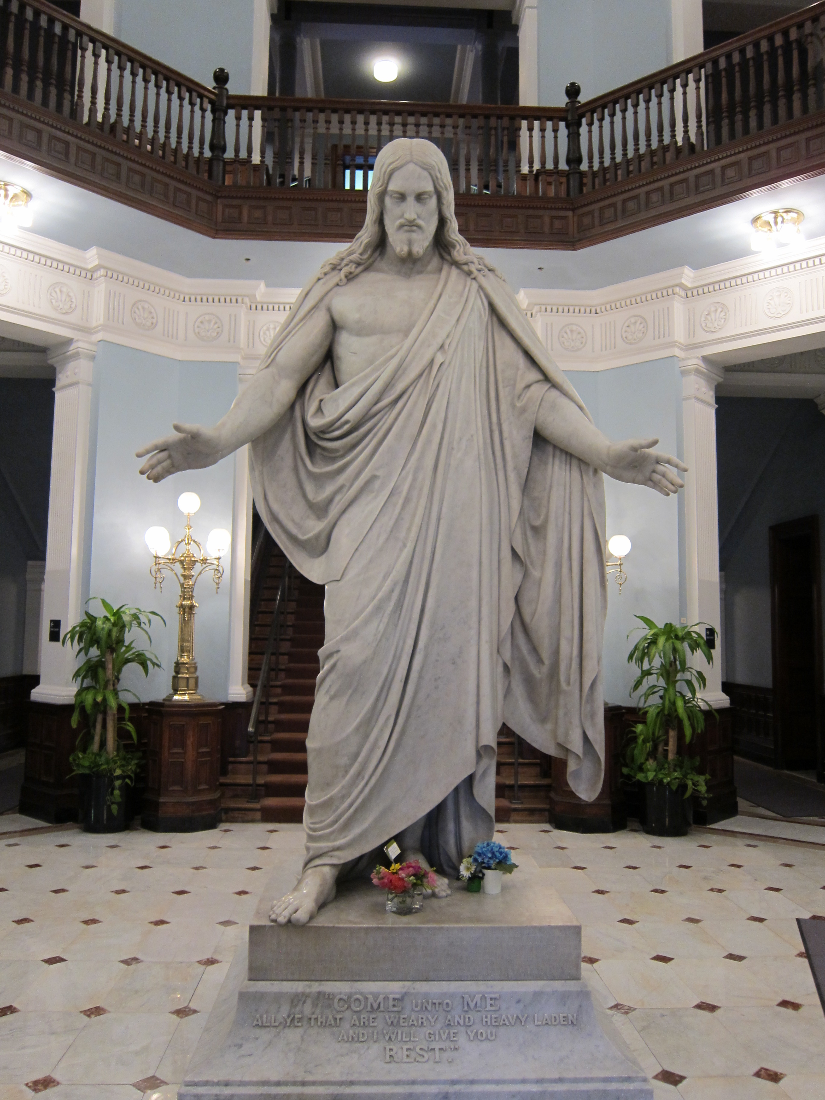 Bertel Thorvaldsen's Christus - under the Dome at Johns Hopkins Hospital